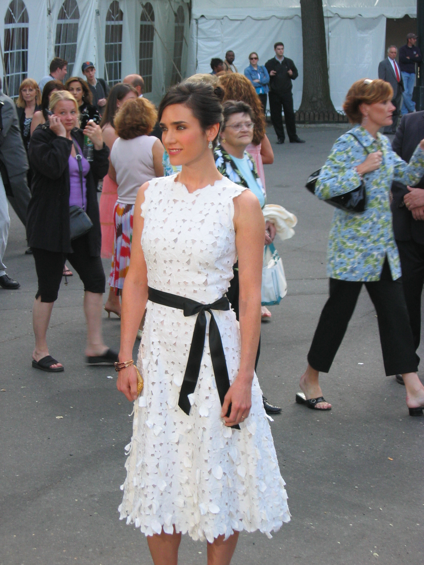 She was really friendly. And I think her son was with her.